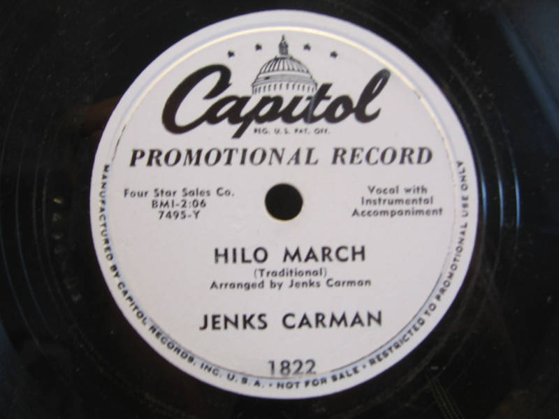 Hilo March by Jenks Carman, Capitol 1951-1953.